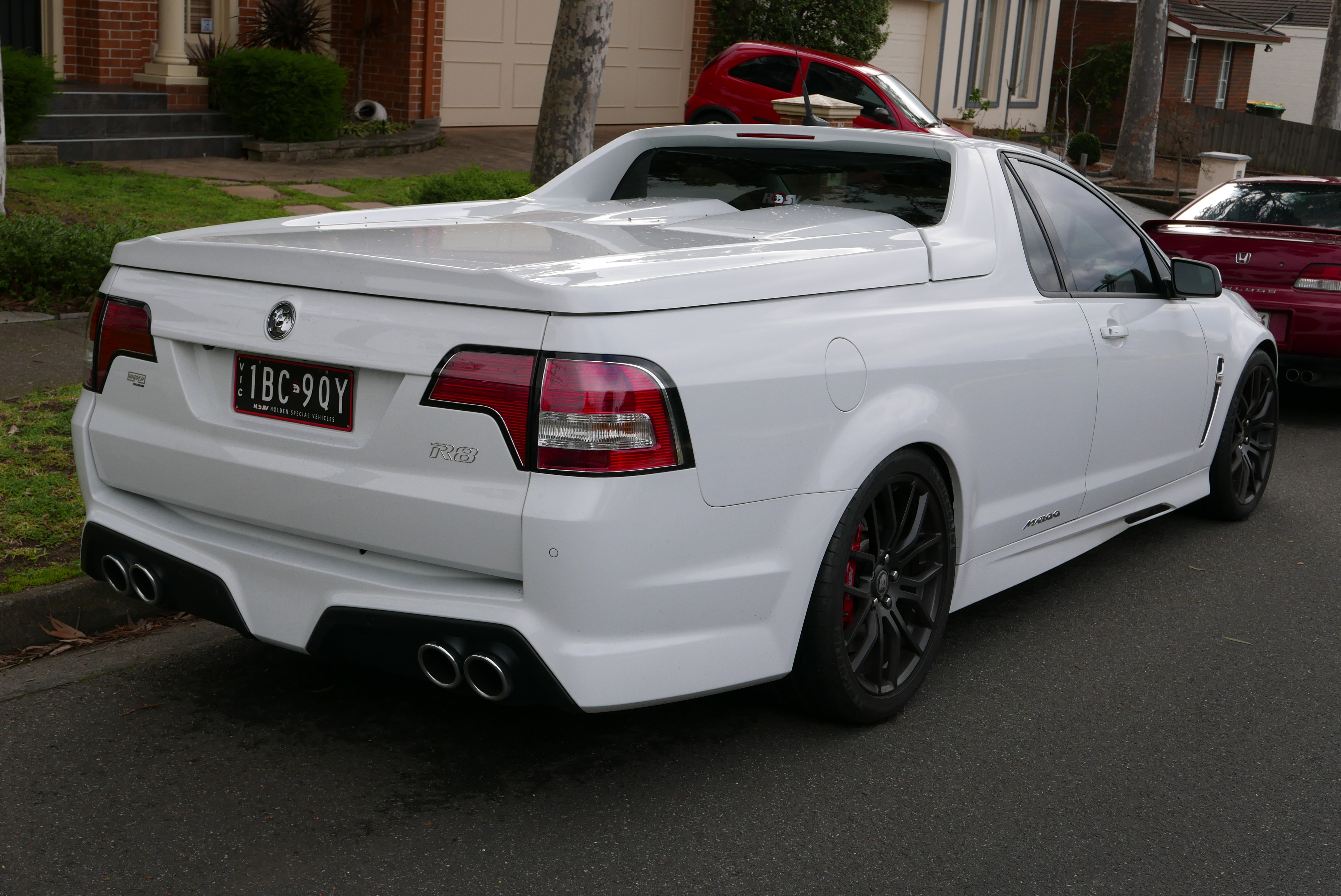 2014 HSV Maloo (Gen-F MY14) R8 utility. Photographed in Blackburn North, Victoria, Australia. Vehicle registration enquiry results Jurisdiction Victoria Registration 1BC9QY Chassis code 6G1FF4EW2EL993614 Engine code CFT141020274 Compliance date 2014-07 Year of manufacture 2014